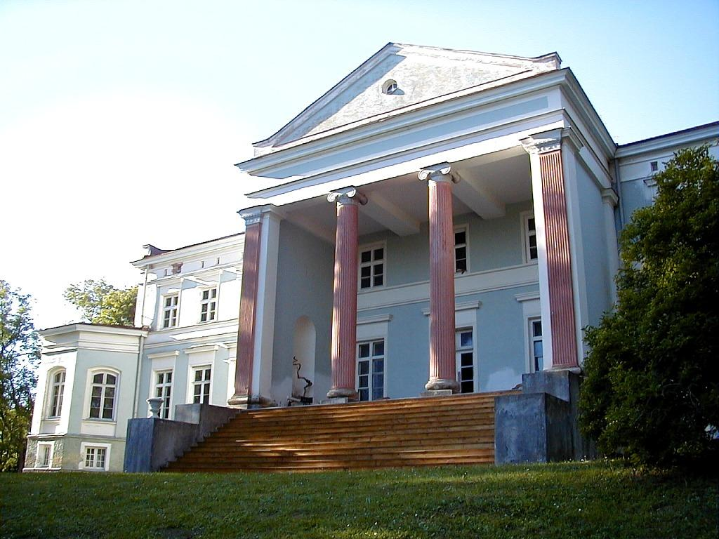 Nogallen manor, Latvia